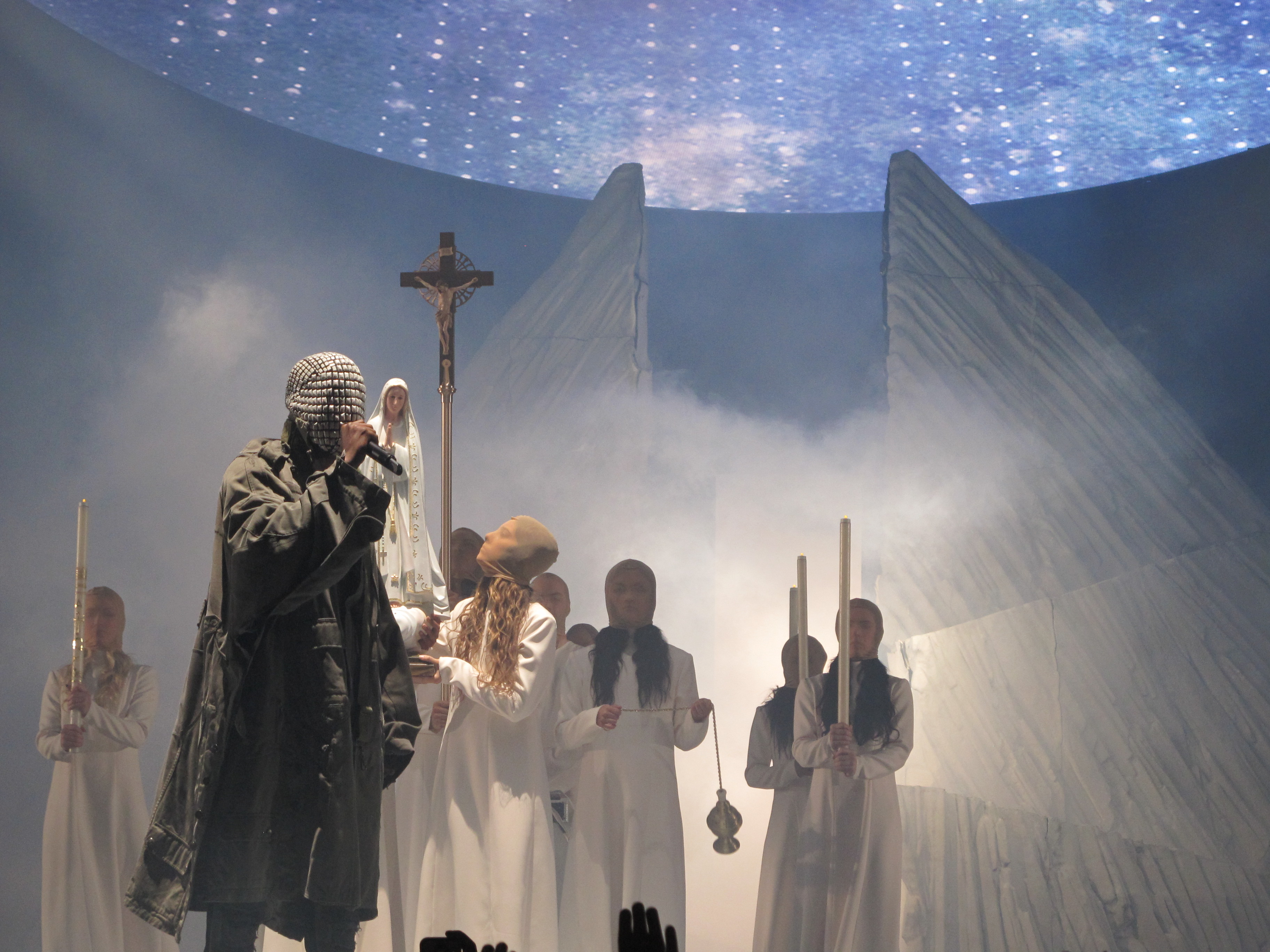 West on stage during the Yeezus Tour